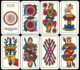 Italian Playing Cards, Bergamo deck style. From left to right and top to bottom: Ace of Coins 2 of Coins King of Coins Ace of Cups Ace of Swords Knight of Swords 7 of Batons King of Batons